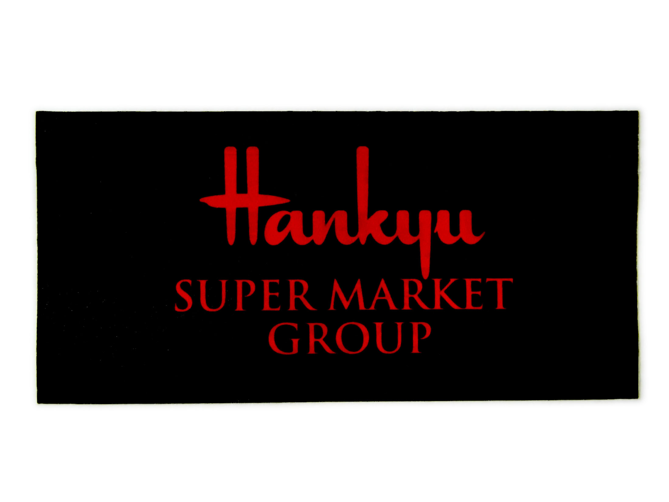 Hankyu SUPER MARKET GROUP(Hankyu OASIS Ibaraki-Ekimae),2-2 Nishichujocho Ibaraki-City Osaka Japan.